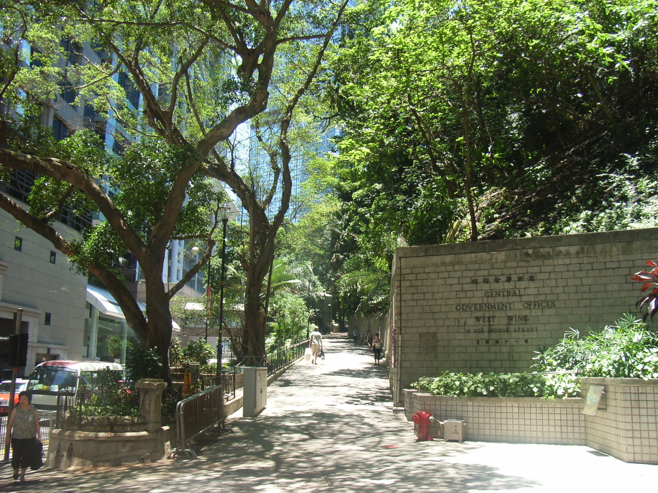 炮台里 Battery Path, Central, Hong Kong. PC652107